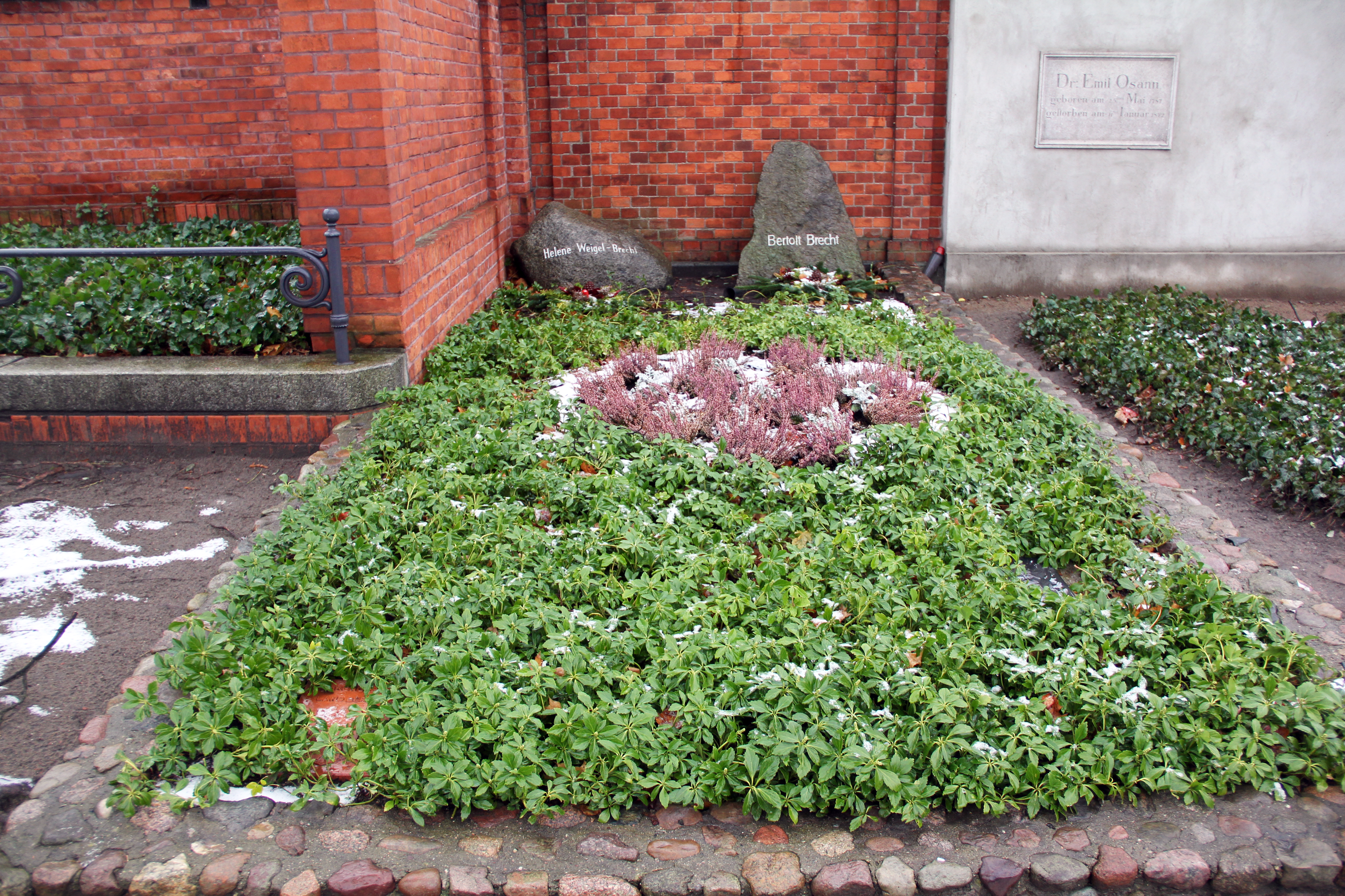 Grave of honor, Bertolt Brecht and Helene Weigel, Chausseestraße 126, Berlin-Mitte, Germany